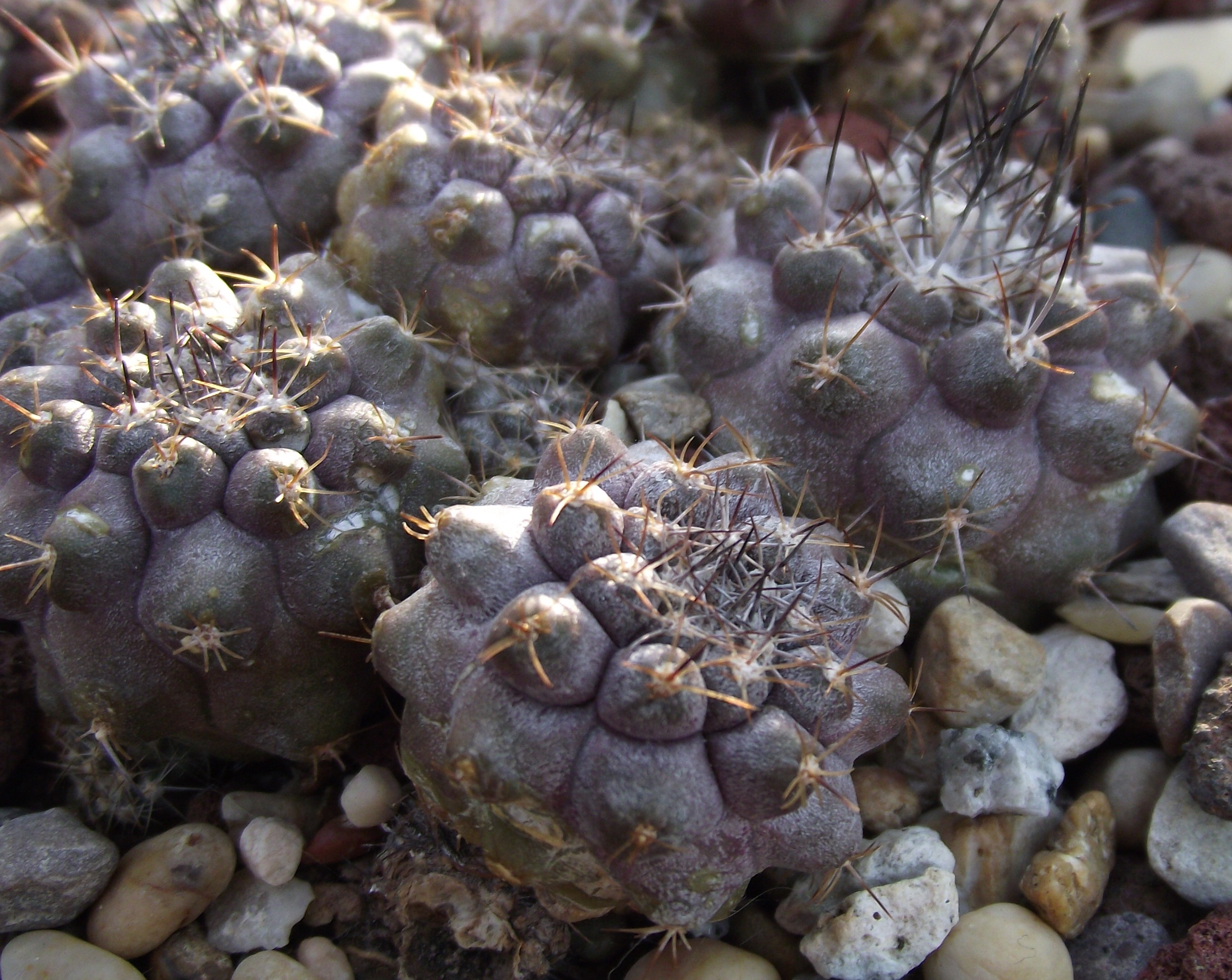 Copiapoa humilis at the Volunteer Park Conservatory, Seattle, Washington, USA. Identified by sign.